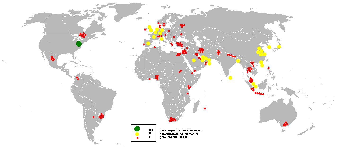 This bubble map shows the global distribution of Indian exports in 2006 as a percentage of the top market (USA - $20,902,500,000). This map is consistent with incomplete set of data too as long as the top producer is known. It resolves the accessibility issues faced by colour-coded maps that may not be properly rendered in old computer screens. Data was extracted on 30th September 2007 from Based on :Image:BlankMap-World.png